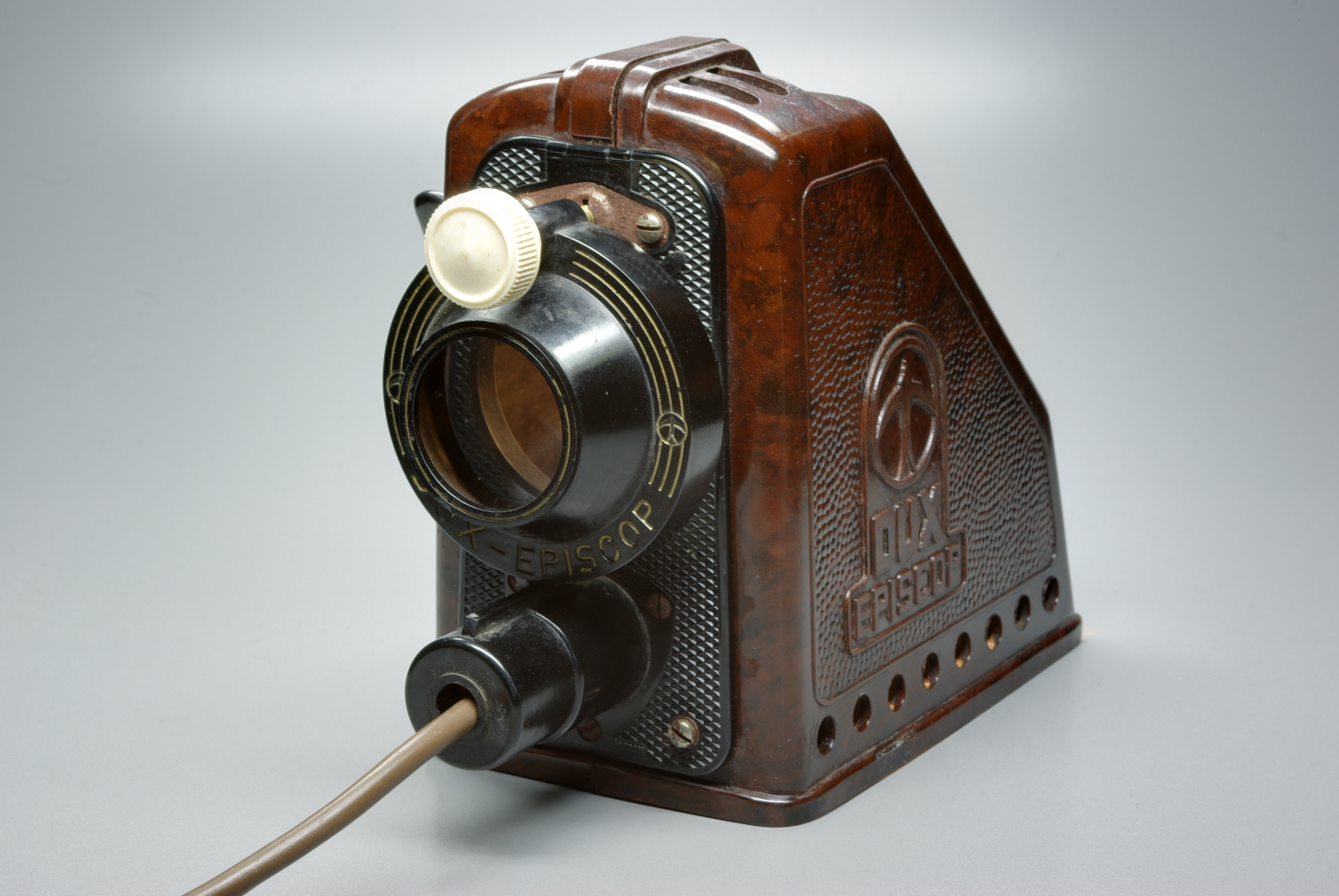 Episcope of the company DUX Dux Episkop (n°48, n°49) Markes & Co, K.-G., Lüdenscheid i, Westfal. 1951